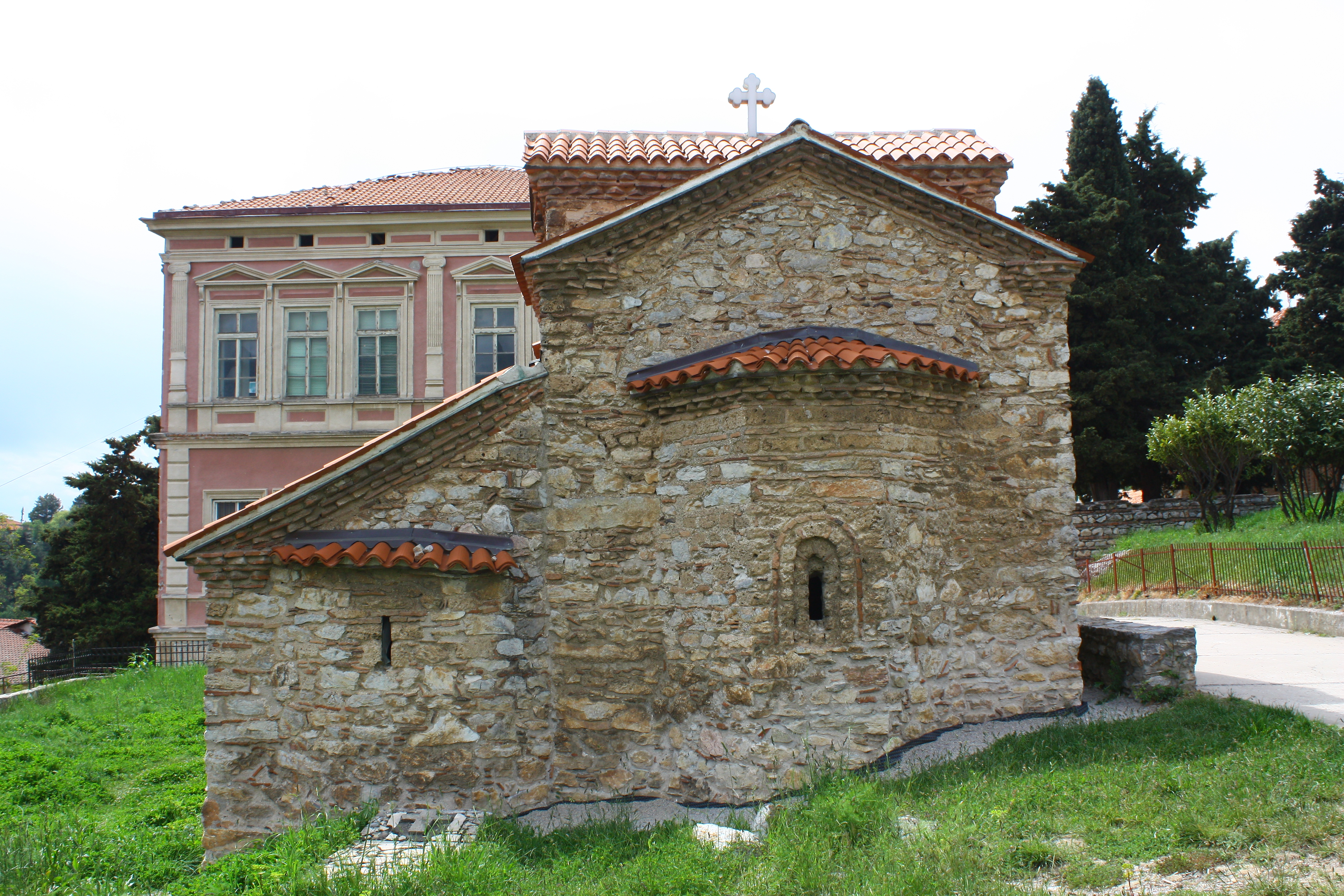 Saints Constantine and Helena Church in Ohrid, Macedonia